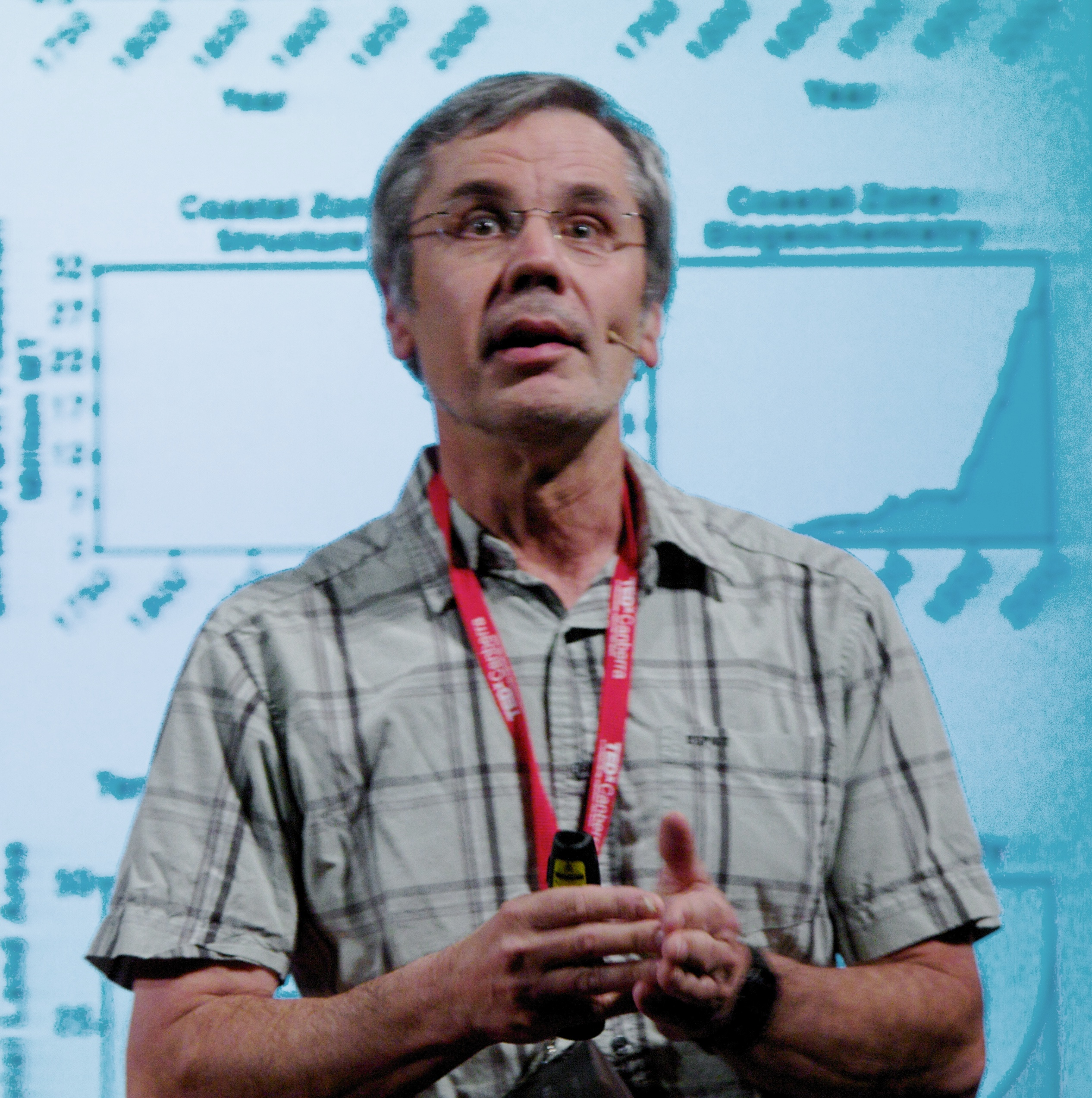 Will Steffen, executive director of the Australian National University (ANU) Climate Change Institute at TEDx Canberra